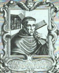 Bartholomaeus Agricola (b. ca. 1560; d. 1621), German Franciscan monch and composer.